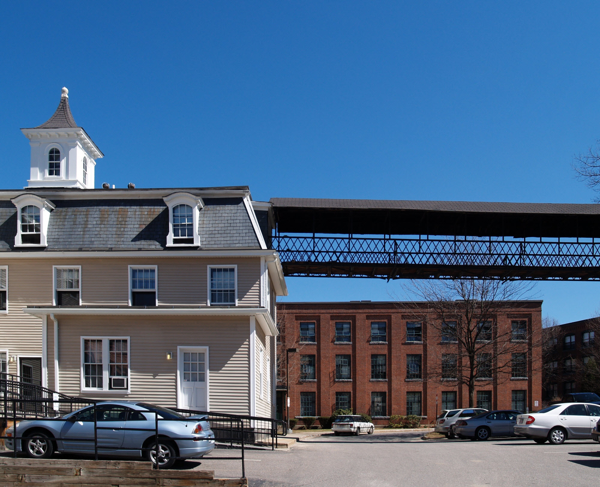 Whitney Carriage Company Complex (now apartments), Leominster, Massachusetts